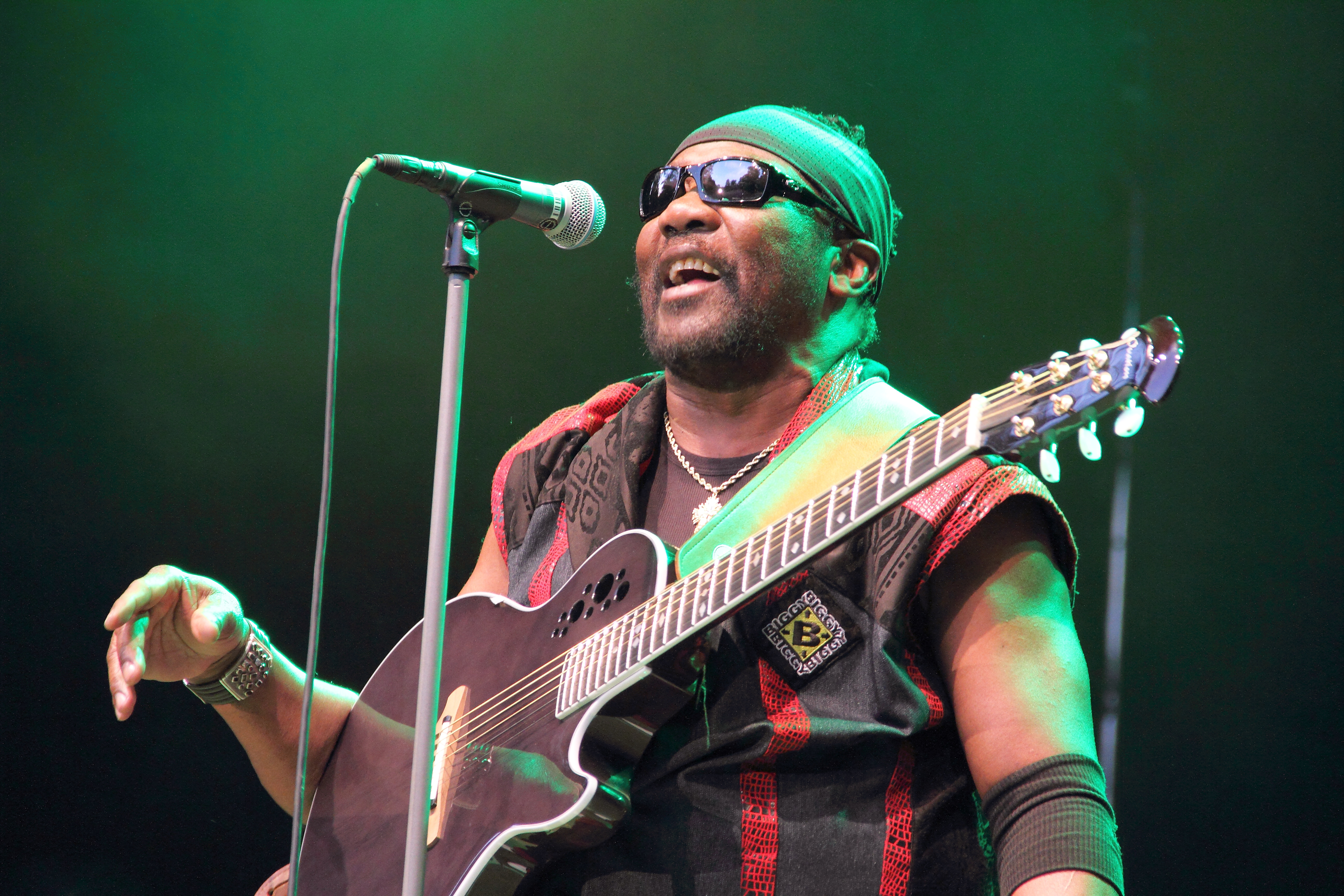 Toots & The Maytals at Rudolstadt-Festival 2017.